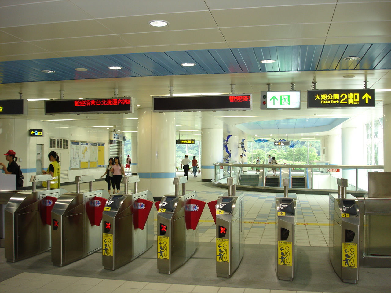 The inner of MRT Dahu Park Station.